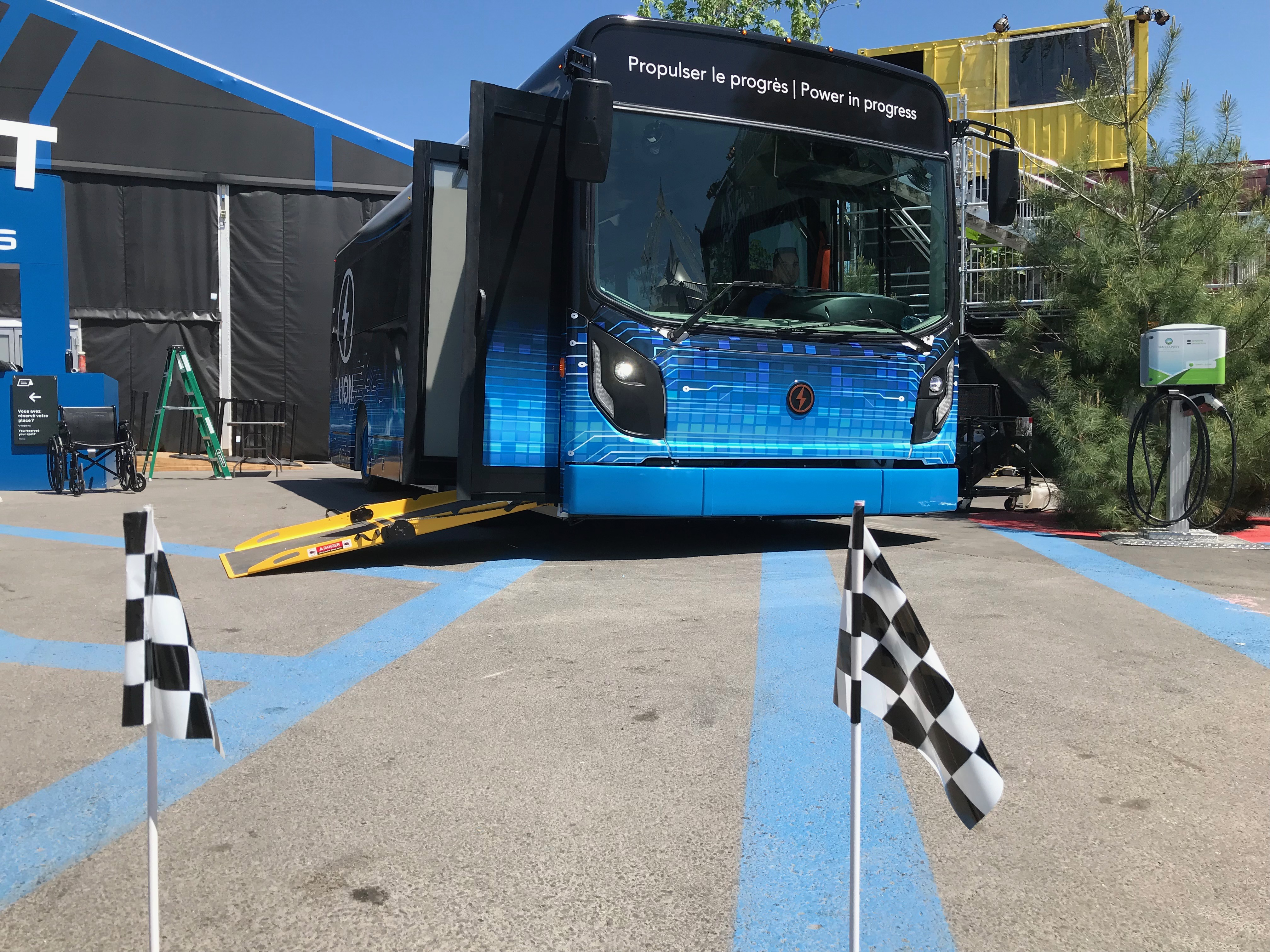 LIONM all-electric midi/minibus